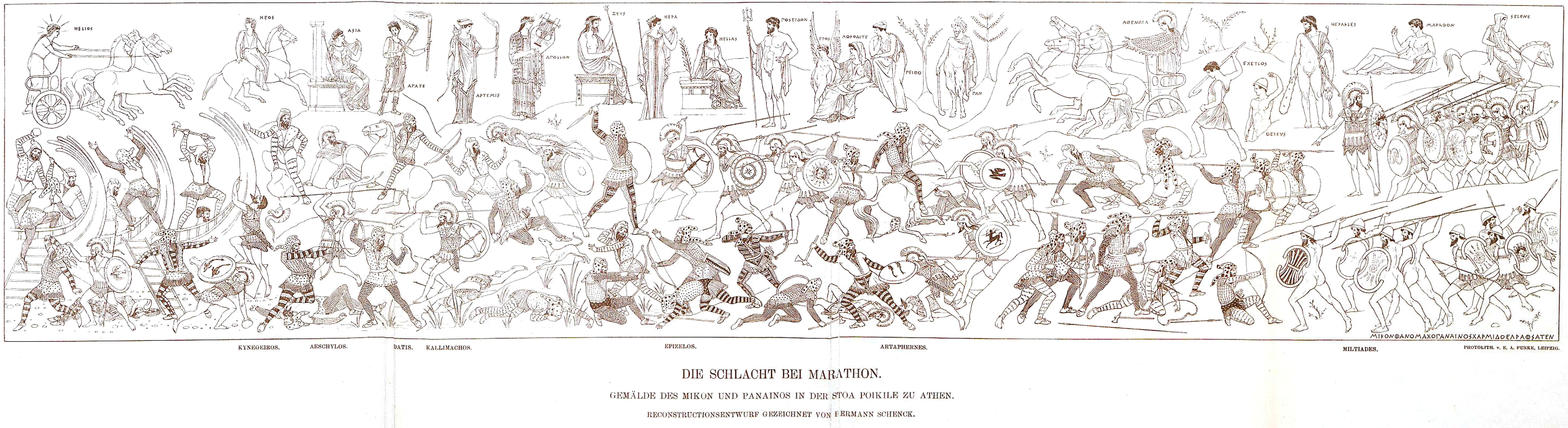 reconstruction of the ancient painting "the battle of Marathon" by Polygnotus